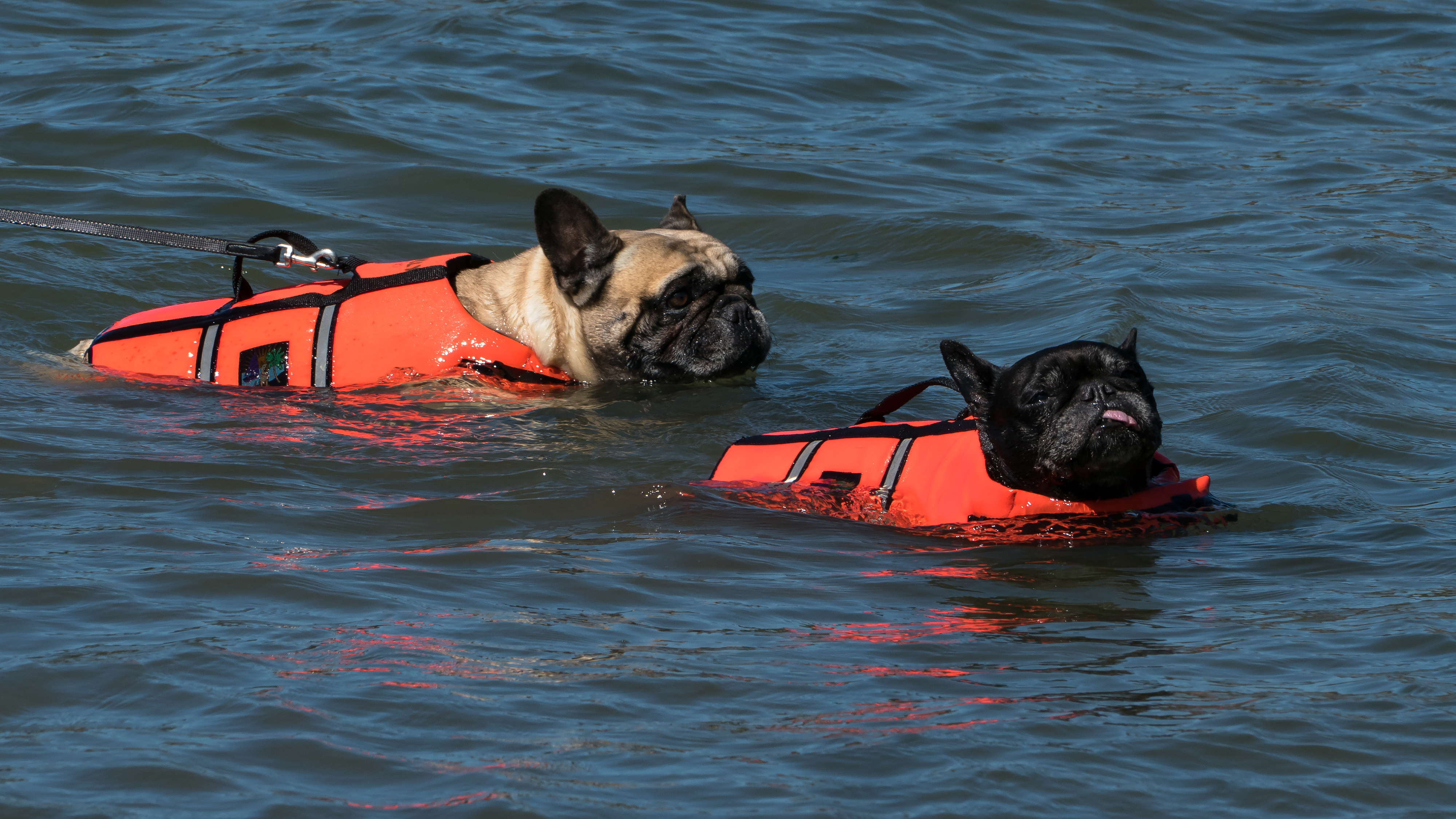 Two French bulldogs swimming in life jackets in the water at Sandvik beach by Brofjorden, Lysekil Municipality, Sweden. These two dogs were very happily swimming and cooling off in the water on a hot summer's day. Because of this breed's constitution, they can't really hold their head high over the surface and this may result in inhaling water and drowning. Responsable owners put life vests on their French bulldogs to help them get the right buoyancy.